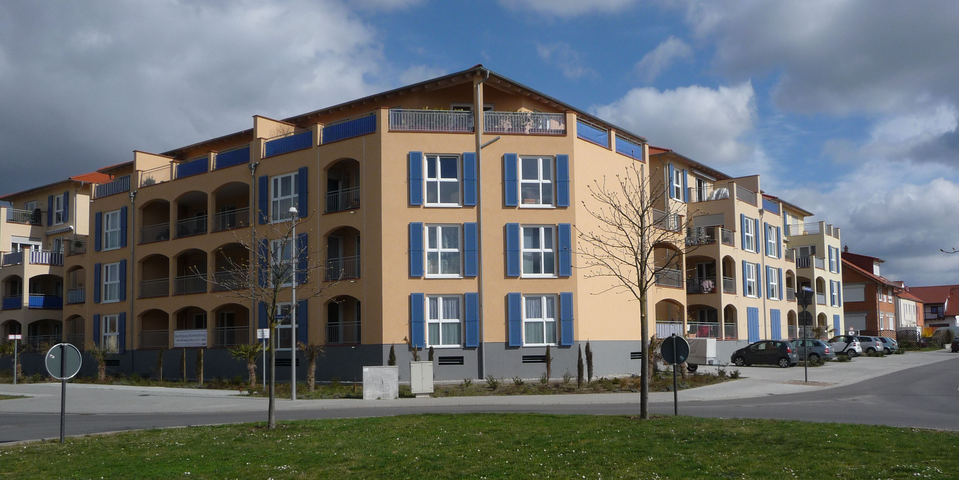 Ludwigshafen-Notwende, part of Ludwigshafen, Germany